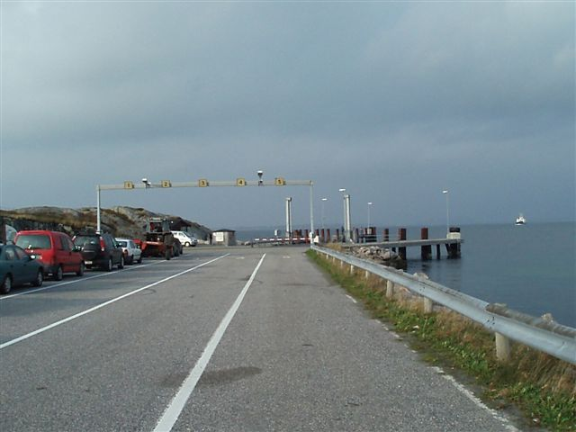 Ferry quay at Valset, Agdenes, Norway - of route 710 crossing the Trondheim fiord, Trondheimsfjorden